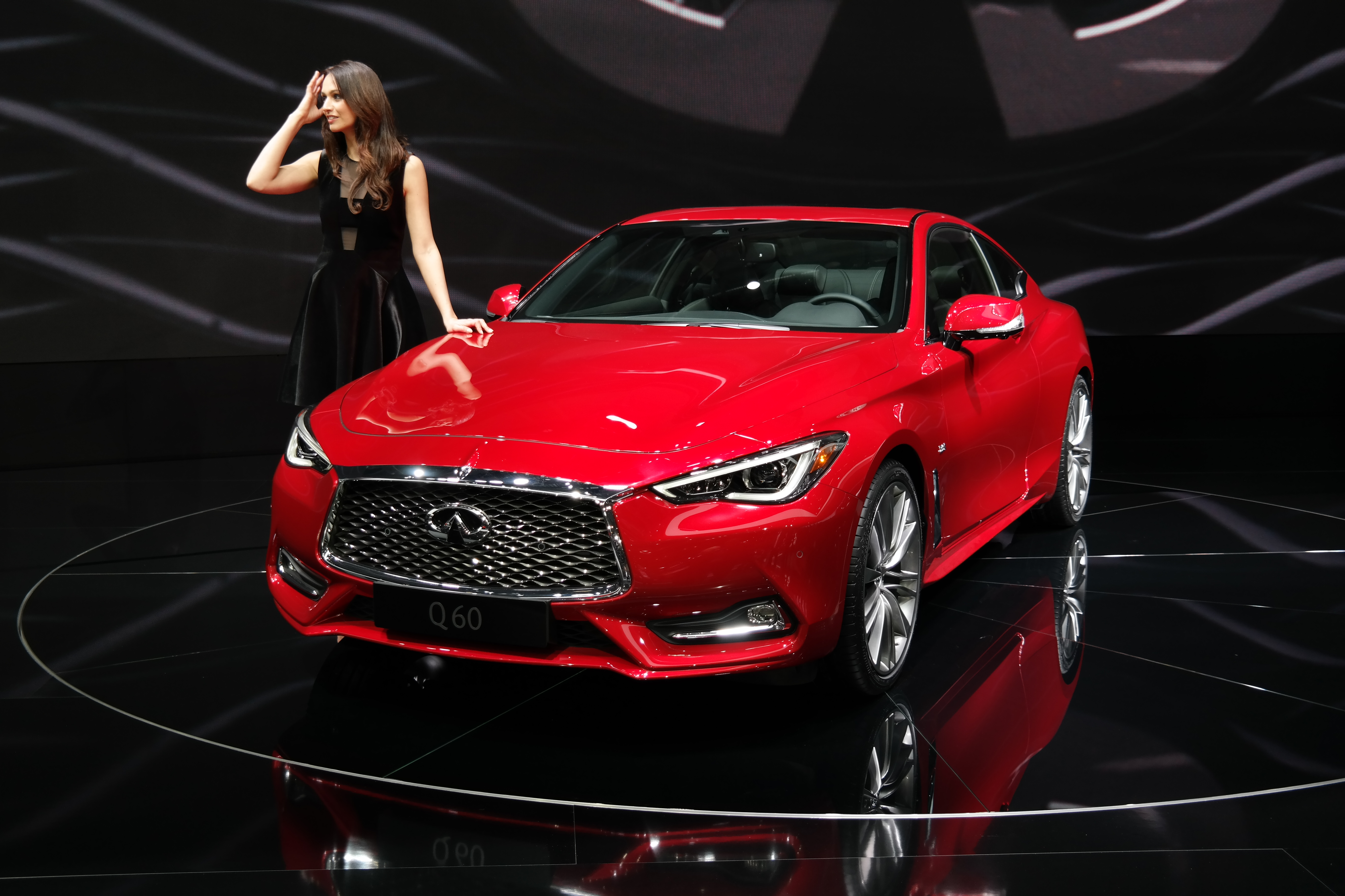 Geneva Motor Show 2016 (photo taken on the first press day)